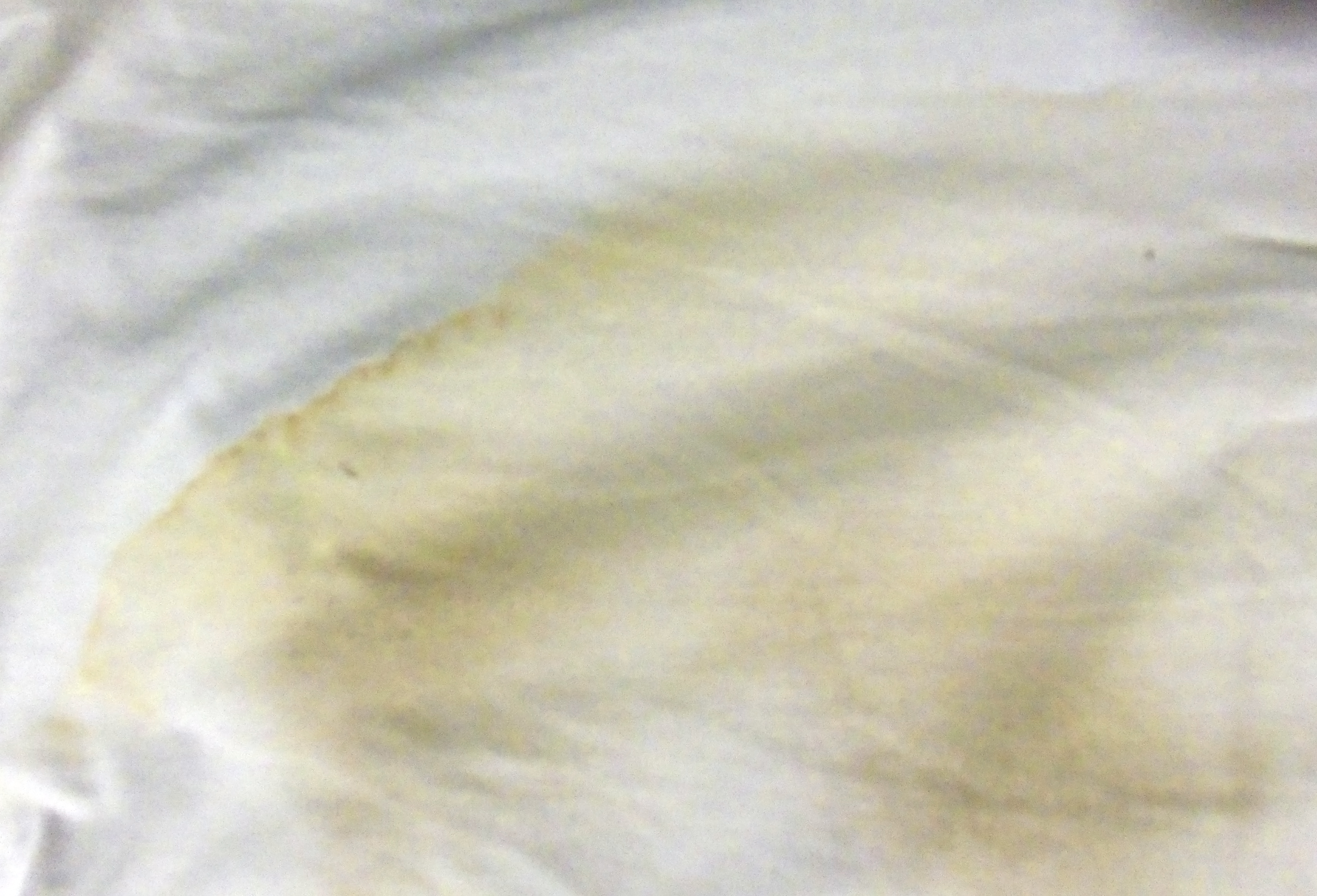 Visible yellow dried sweat stain, on a white cotton T-shirt after hiking in it with a backpack on a hot afternoon.